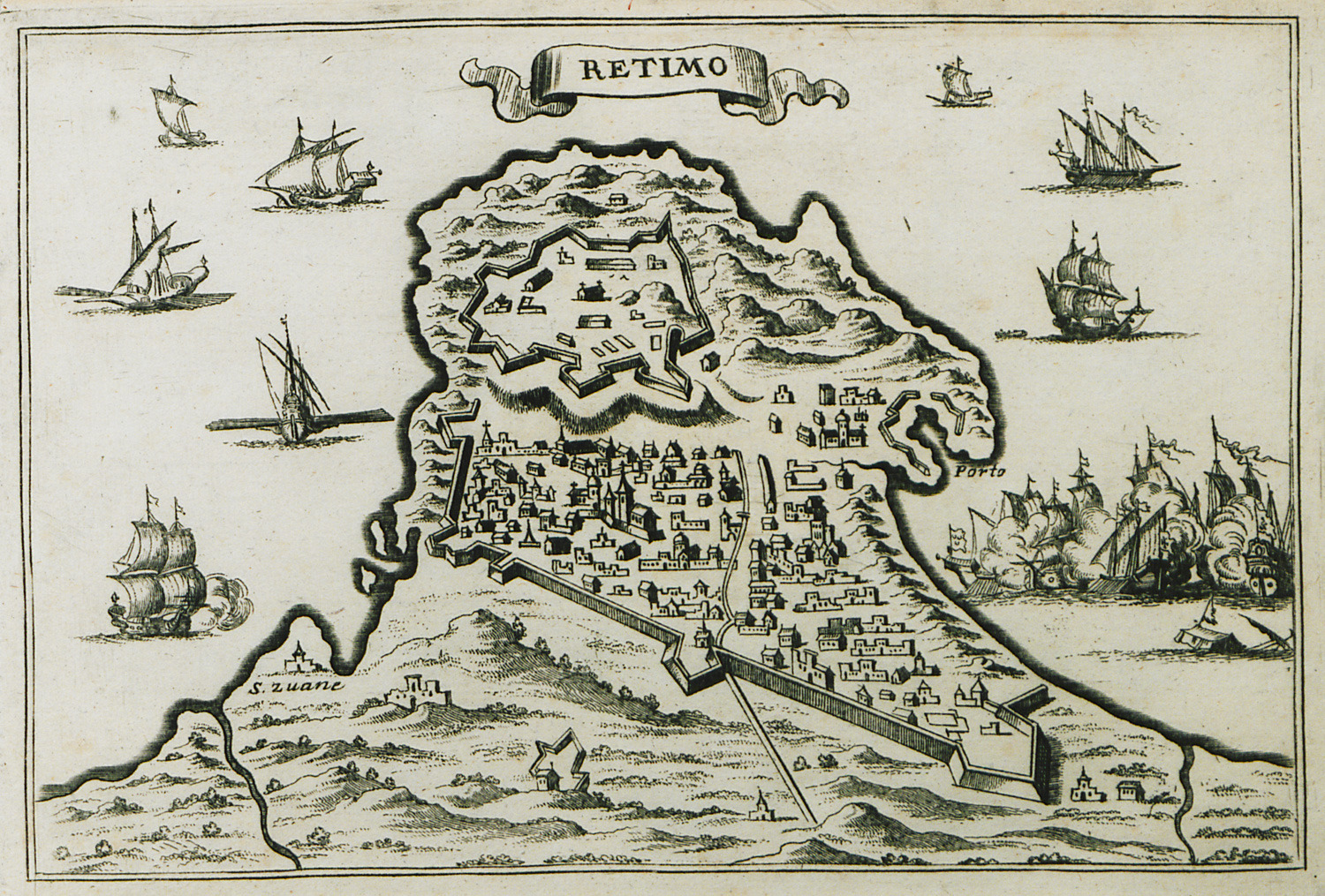 Jacob Peeters. Description des principales villes, havres et isles du golfe de Venise du coté oriental. Comme aussi des villes et forteresses de la Moree, et quelques places de la Grèce, Antwerp, Sur le marché des vieux Souliers, 1690.